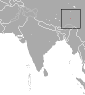 Kozlov's Shrew (Sorex kozlovi) range